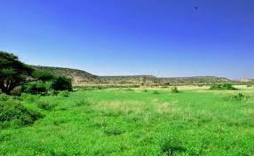 This is a picture taken just outside of Iskufilan town in Gedo region of Somalia.